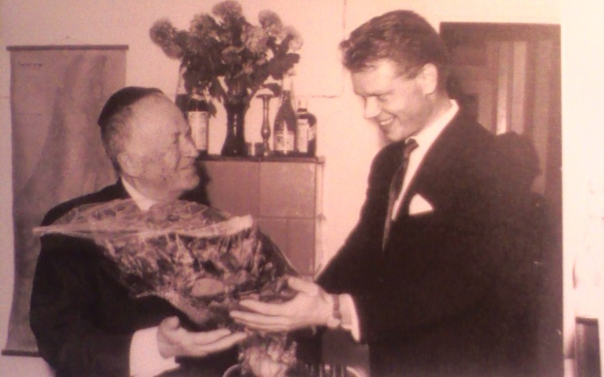 karl lindol tells to agnon about his nobel prize winning